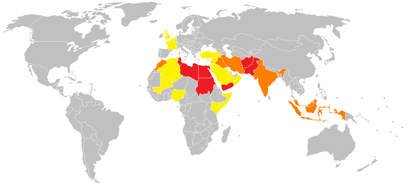 Innocence of muslims protest map; red=violent attacks, orange=major protests, yellow=minor protests